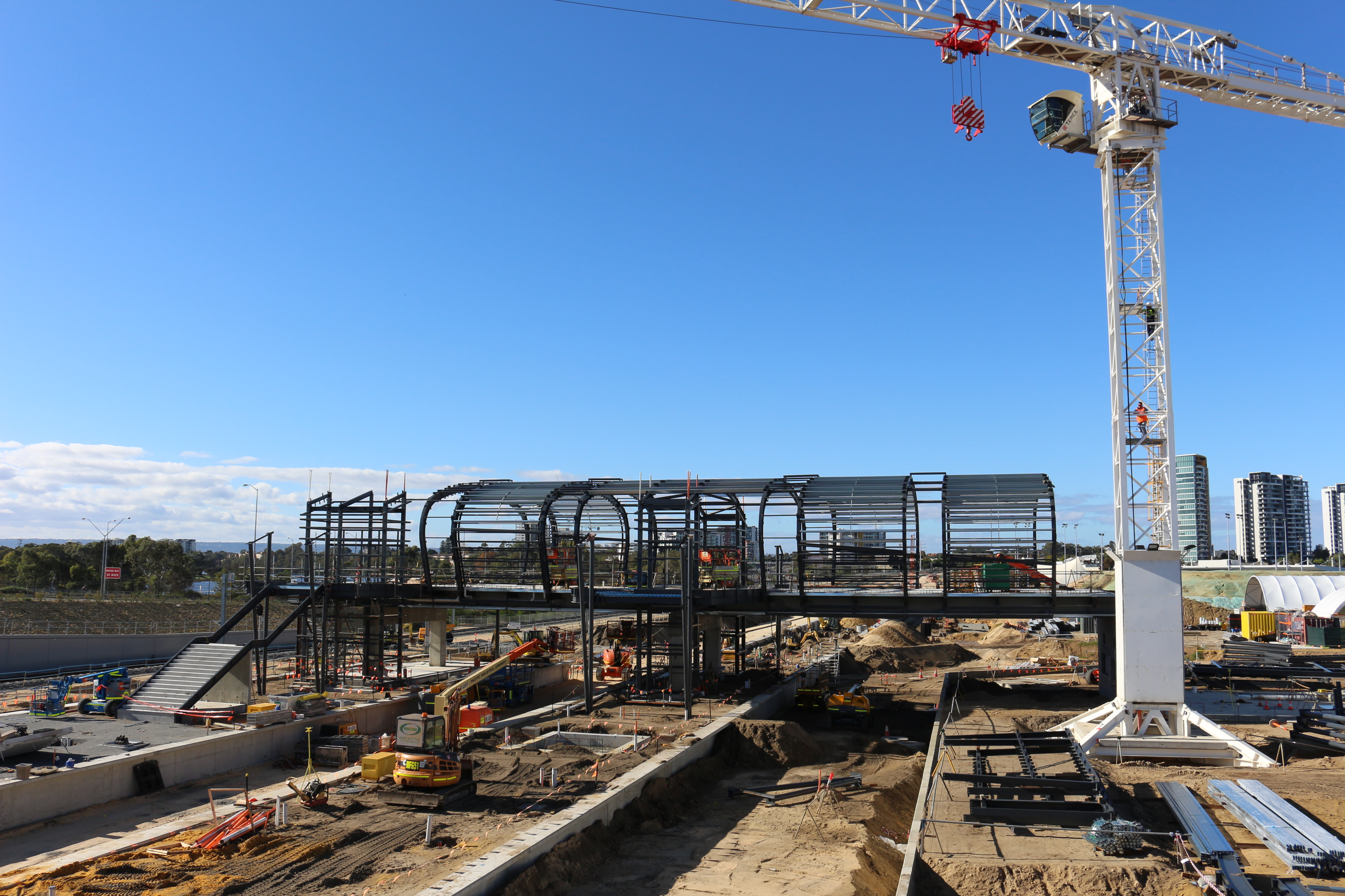 Perth Stadium railway station under construction, showing work on the southern concourse and platforms 1-4 under way. Photographed from Victoria Park Drive.